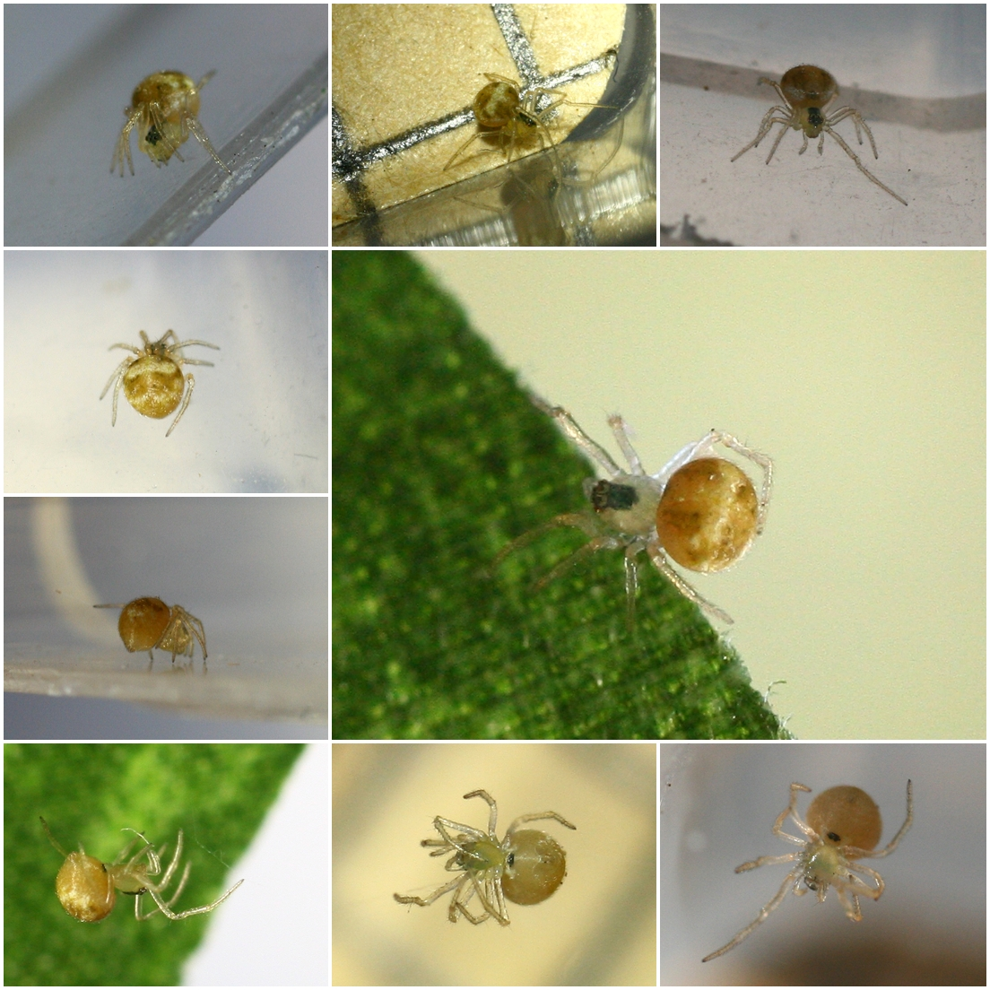 Paidiscura pallens from multiple perspectives